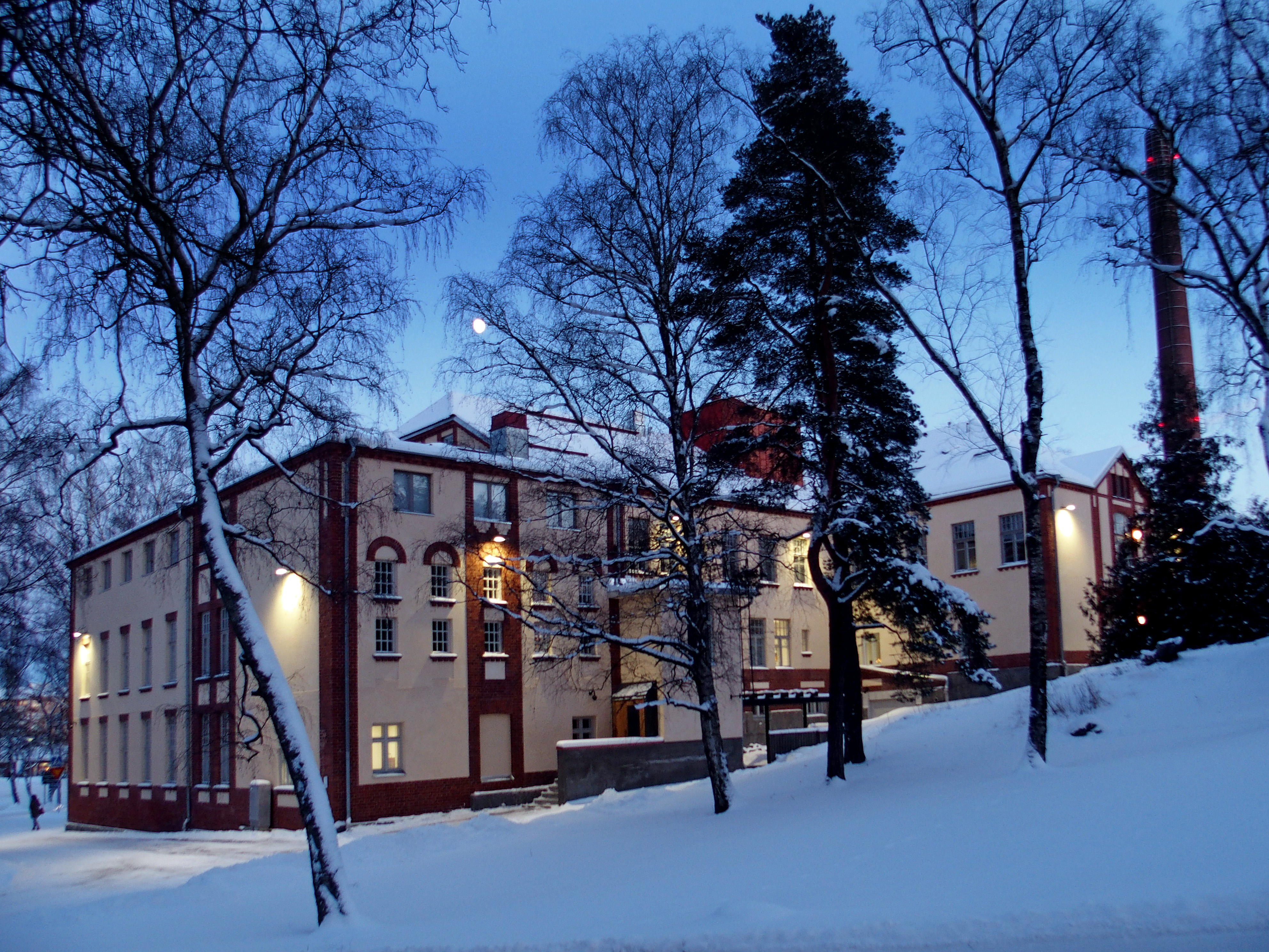 Turku city hospital building 5 on Mäntymäki, architect Eskil Hindersson, 1910.